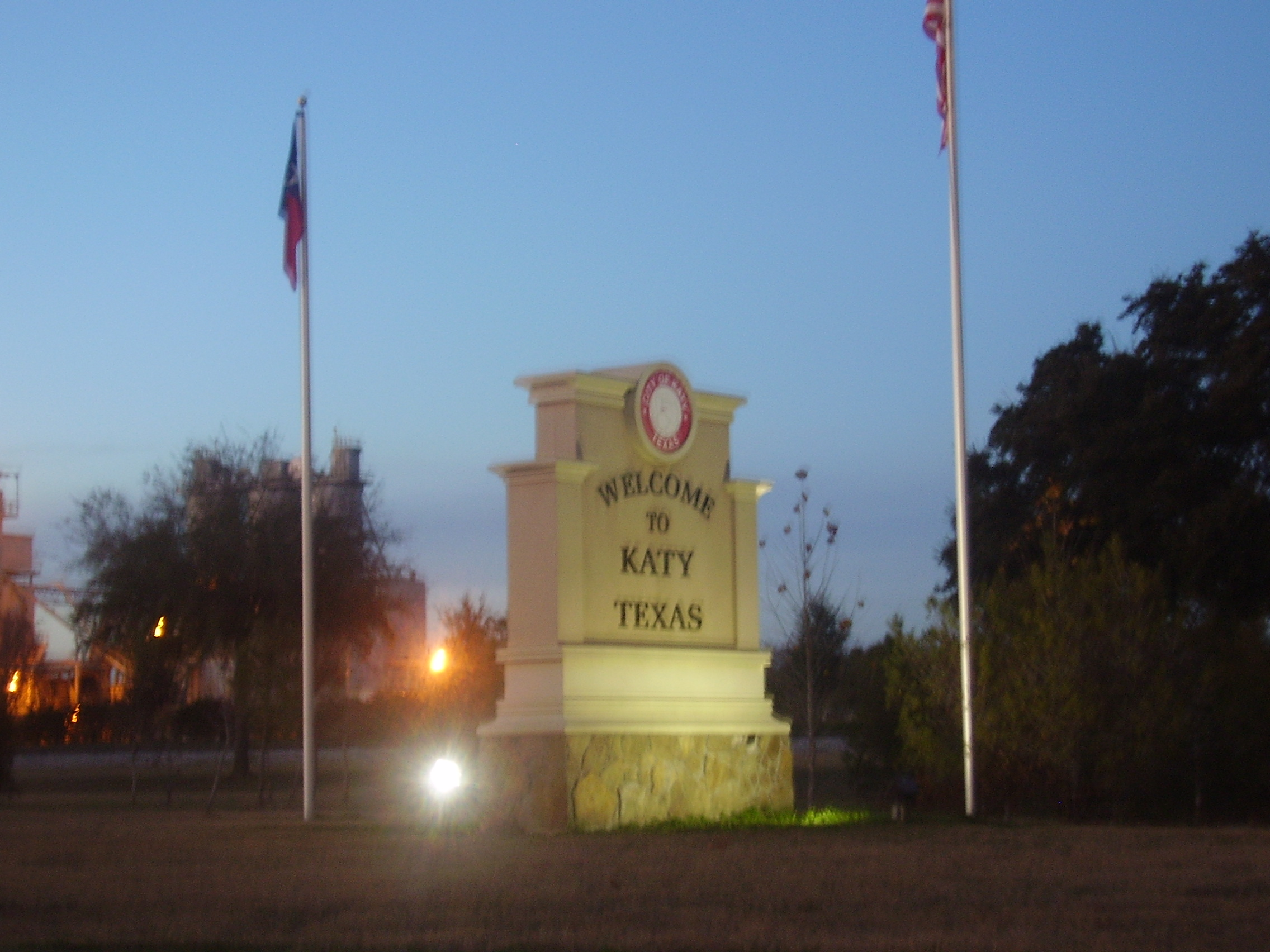 Sign of Katy, Texas